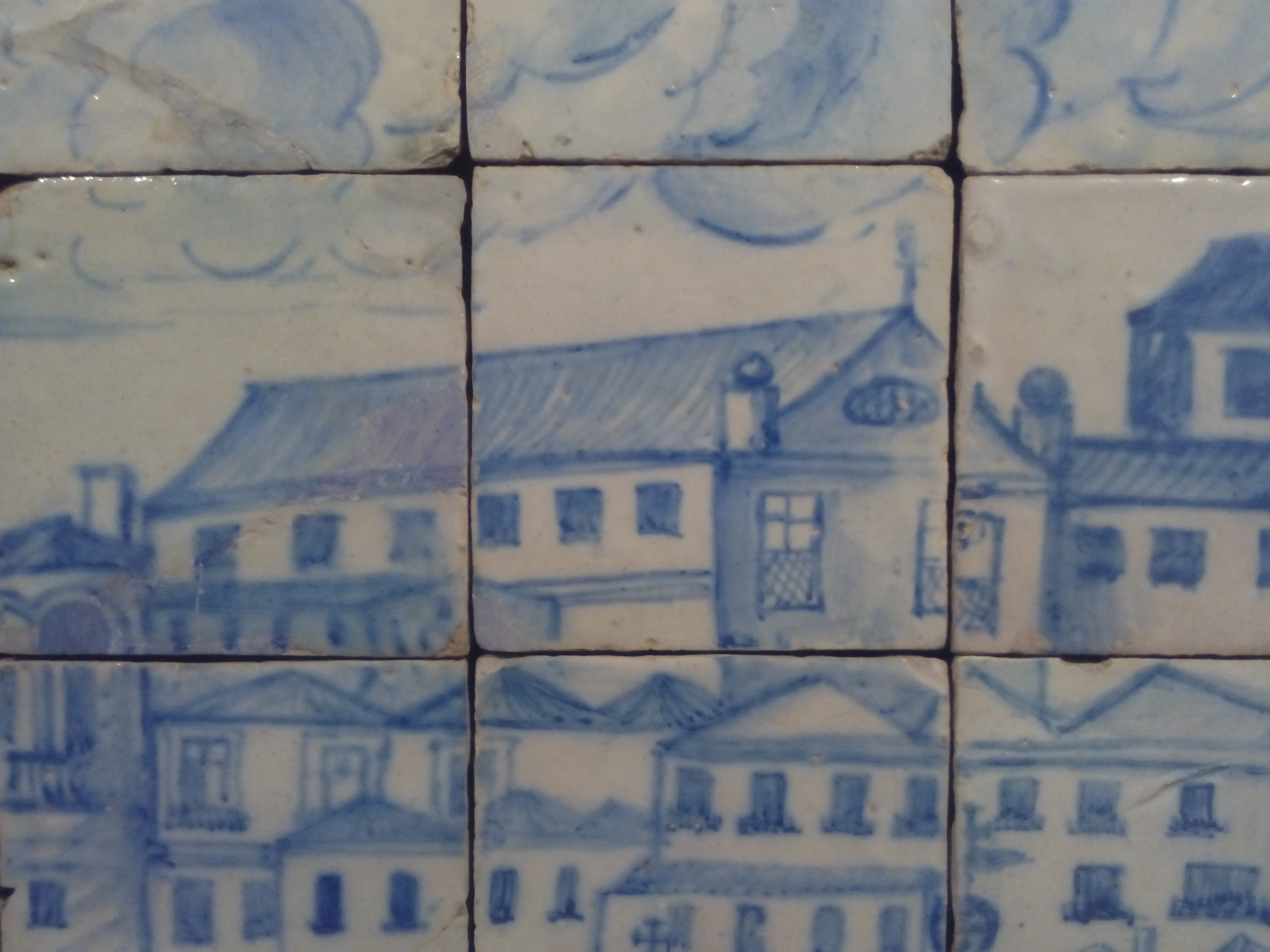 Depiction of the Church of Our Lady of the Martyrs (Igreja de Nossa Senhora dos Mártires), in Lisbon, in an early 18th-century tile panel depicting a view of city. Currently in the National Tile Museum (Museu Nacional do Azulejo), in Lisbon, Portugal.